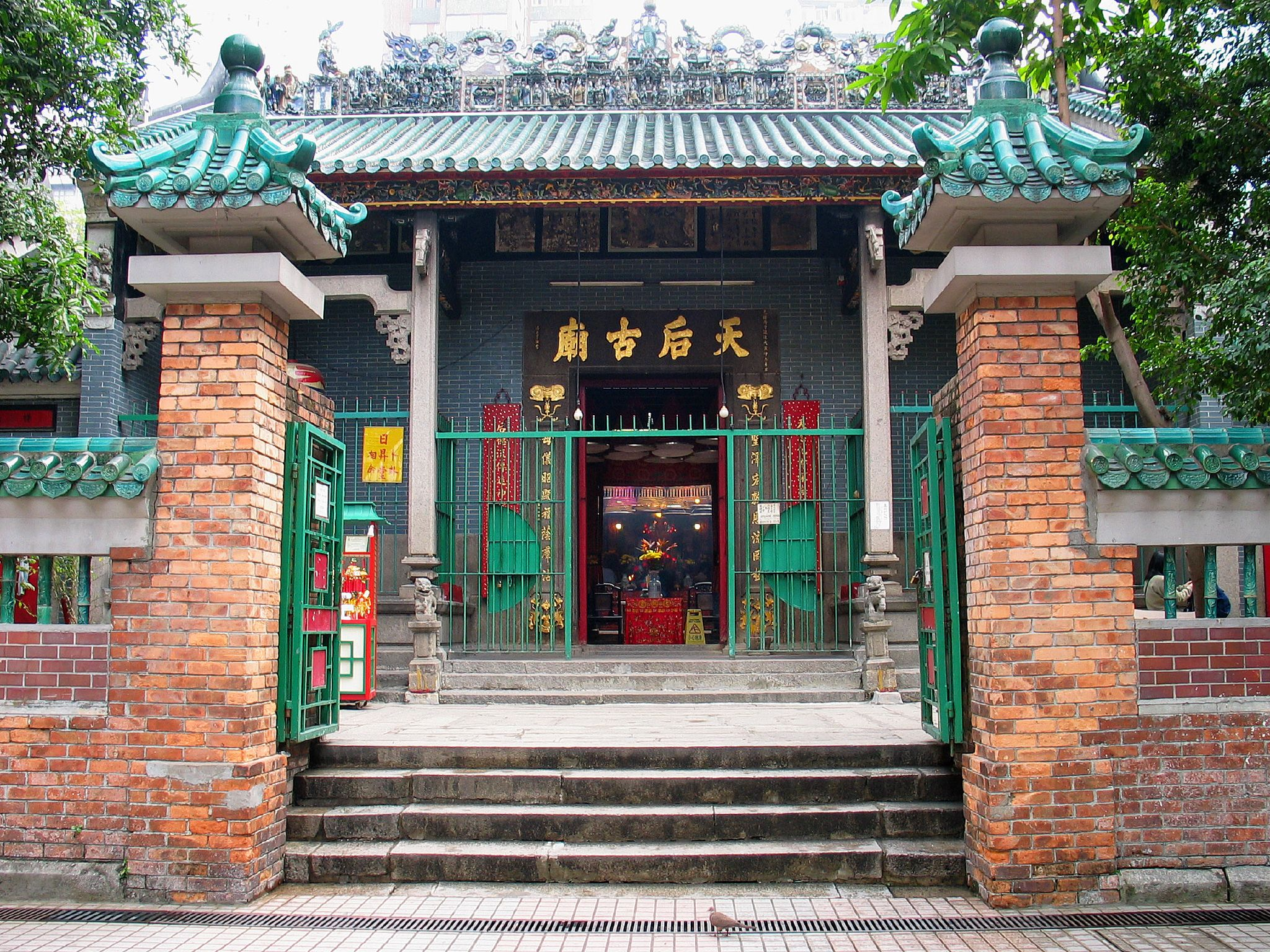 Jen and I took a walk one day through the Yau Ma Tei section of Kowloon, in search of the jade market. We also visited this temple.